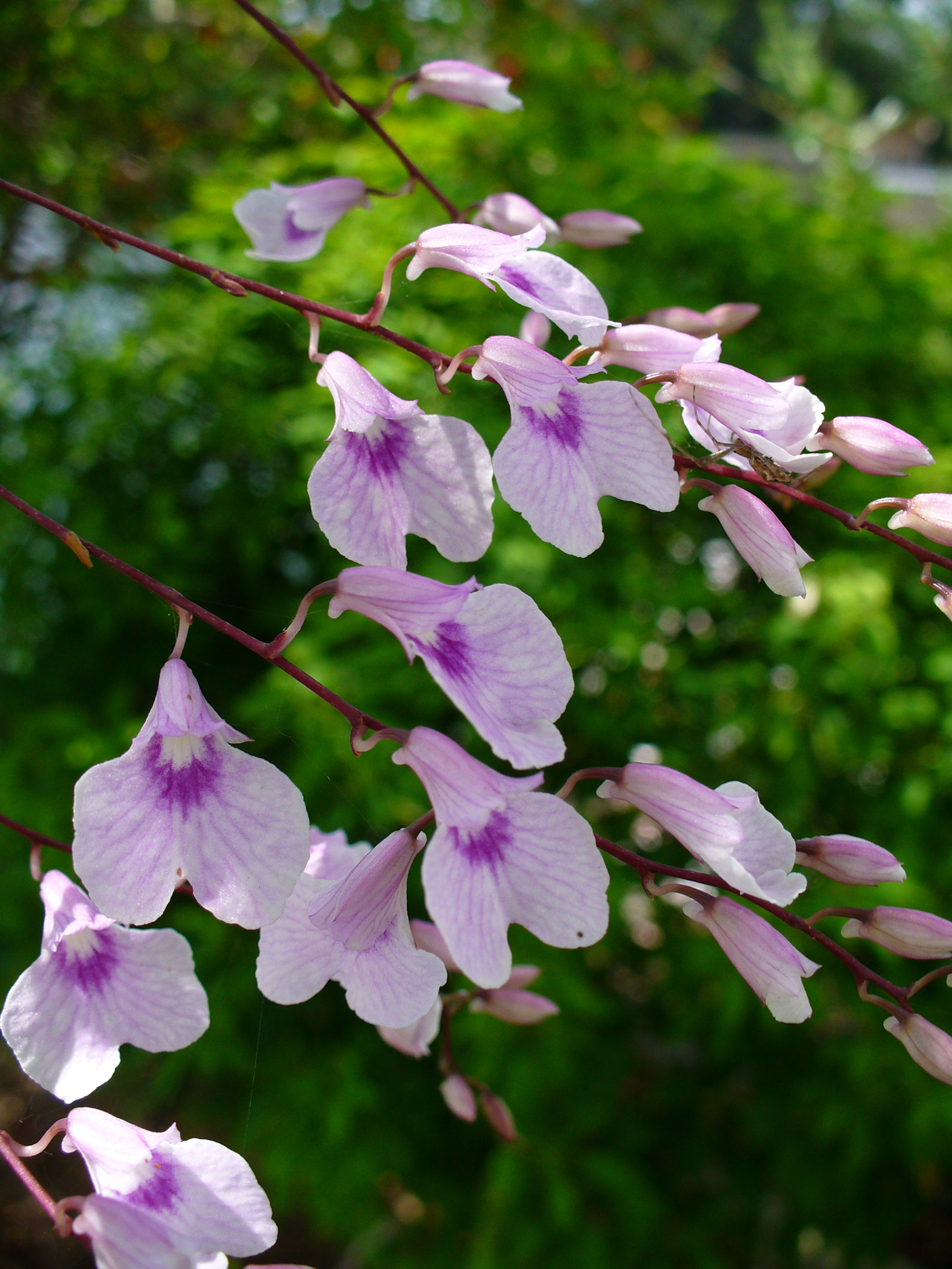 Ionopsis utricularioides, inflorescence South Miami, FL, USA